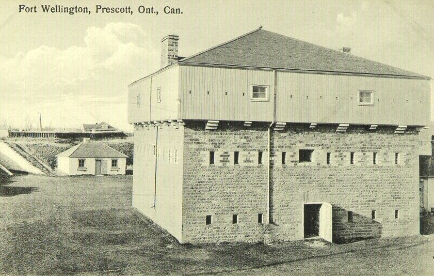 Postcard of Fort Wellington, Prescott, Ontario, Canada.